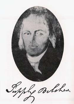 Portrait of Supply Belcher (1751–1836), American composer, created during his lifetime; and Belcher's signature